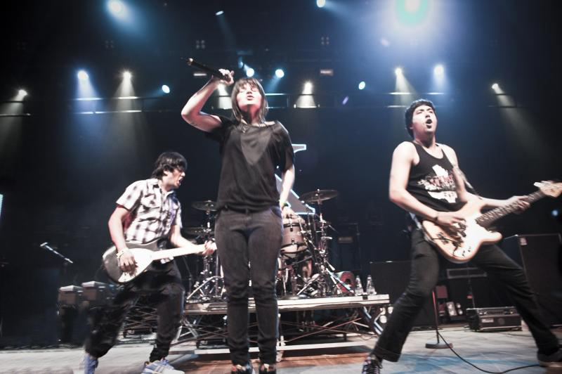 Live @ Credicard Hall - 20/02/2011 - São Paulo, Brasil